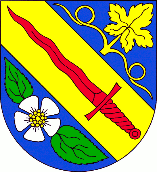 Municipal coat of arms of Michalovice village, Litoměřice District, Czech Republic.